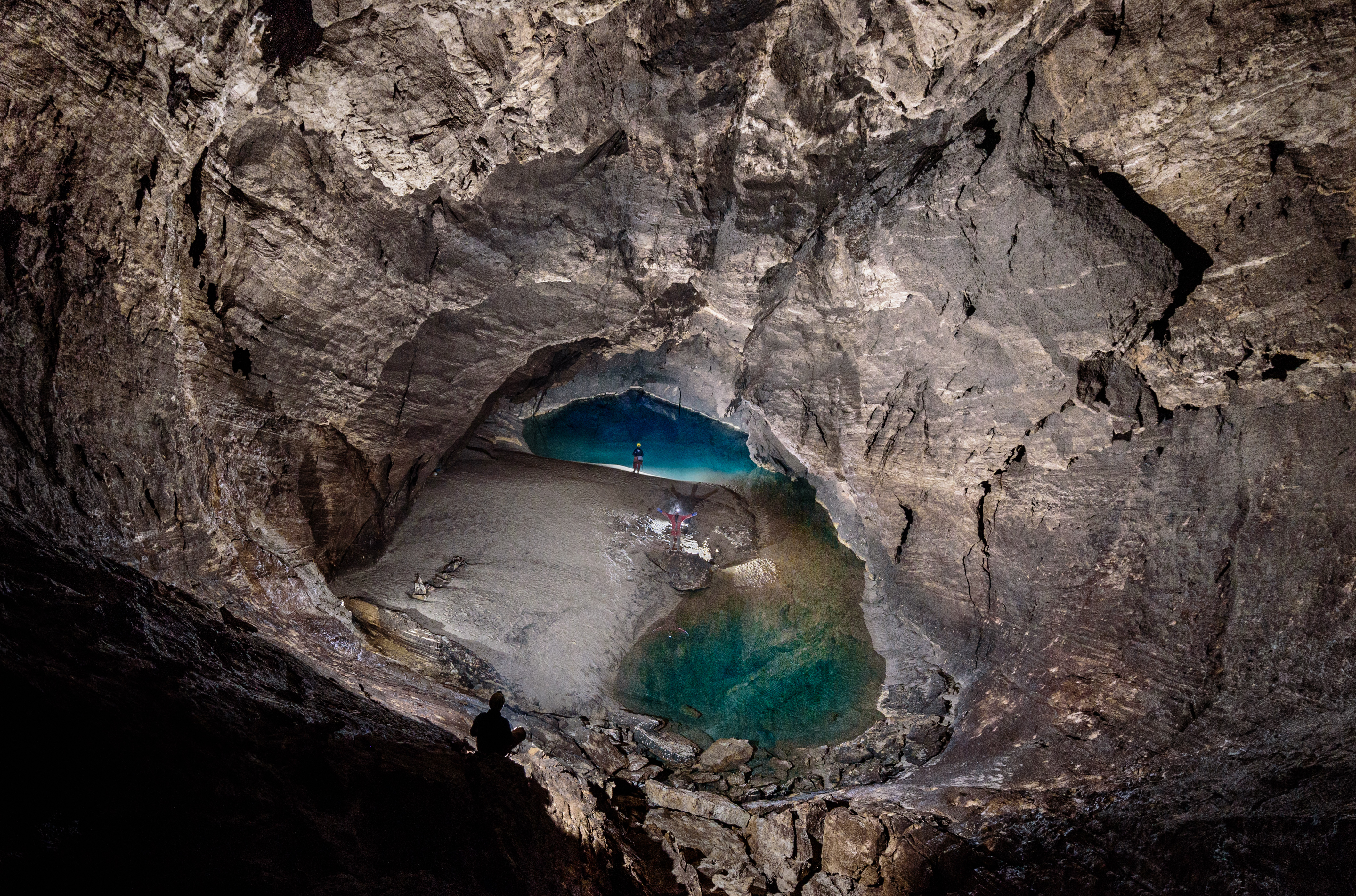 The photo shows a hall with Copacabana beach and Matt's sump at the bottom of Renejevo brezno (Renee's Abyss). Photo was taken at the depth of 1240 m below surface, where small underground creek disappears in the sump. The beach was named after Copacabana because of the huge amount of fine sand. Photo: Uroš Kunaver with Jaka Flis, Klemen Kramar and Nika Pišek Szillich Technical data: 8 at 18 mm, f/5.6, 1/80 sec.; illuminated by five strobes.